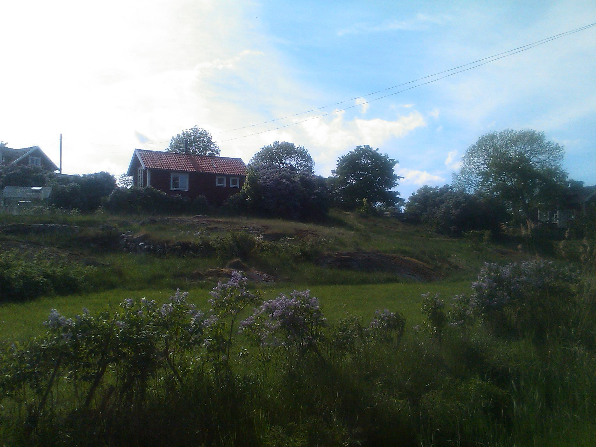 "Turn of the century" summerhouses at Fjällsvik on Vindö island.